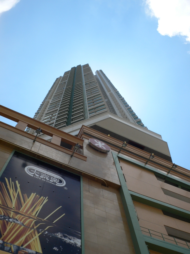 NO.8 Clear Water Bay Road, a residential and commercial building on the top of Choi Hung MTR Station, Hong Kong